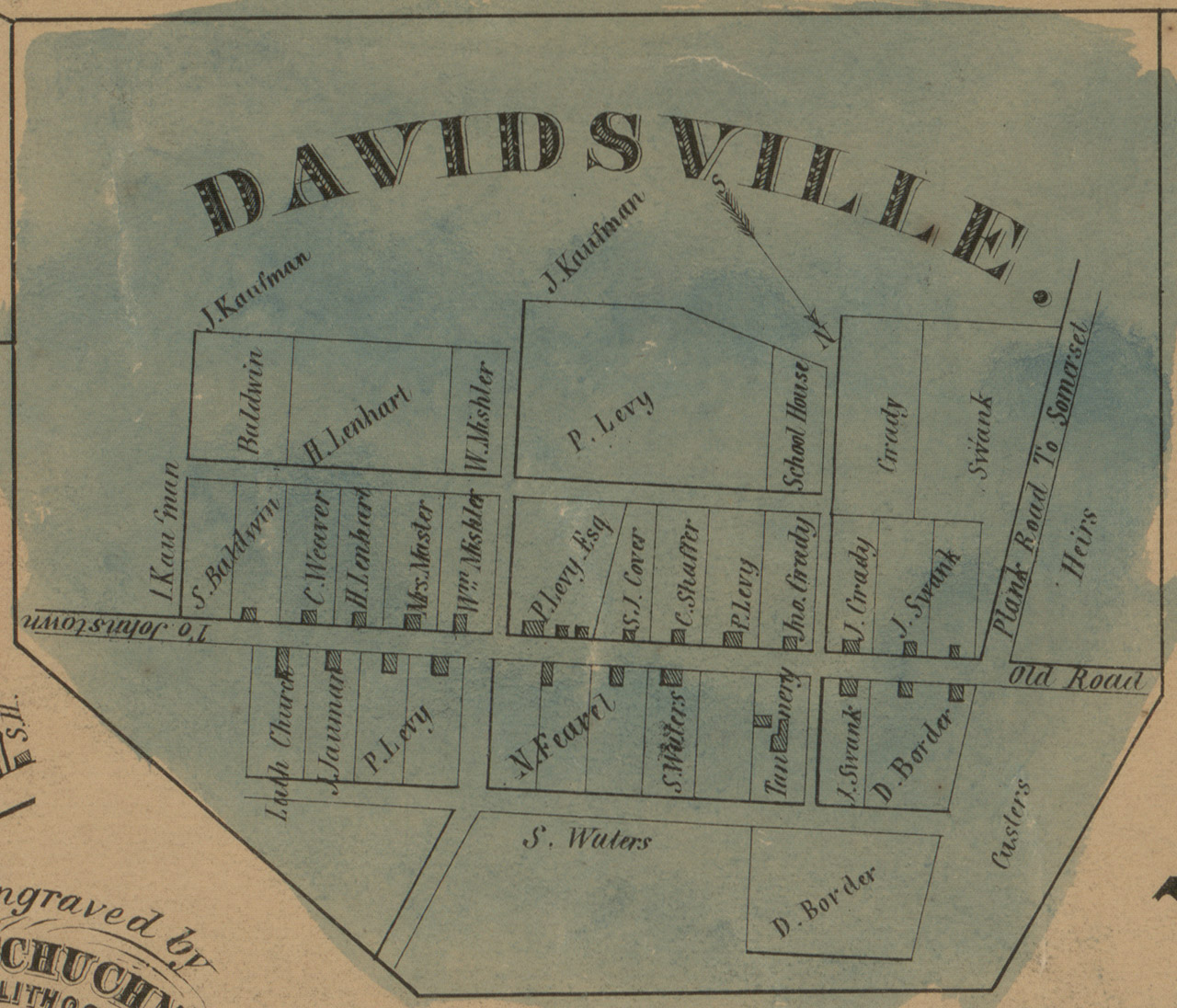 Map of Davidsville, Somerset County, Pennsylvania, taken from 1860 Edward L. Walker map of Somerset County available at the Library of Congress website